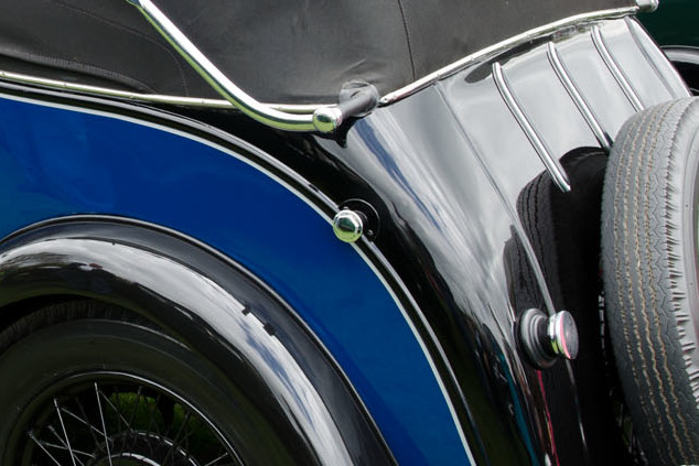 A small crank handle inserted after removing the chromed cap in the centre of the image will wind the cabriolet roof down or upBSA Tickford Coupe Model T10-B 1934